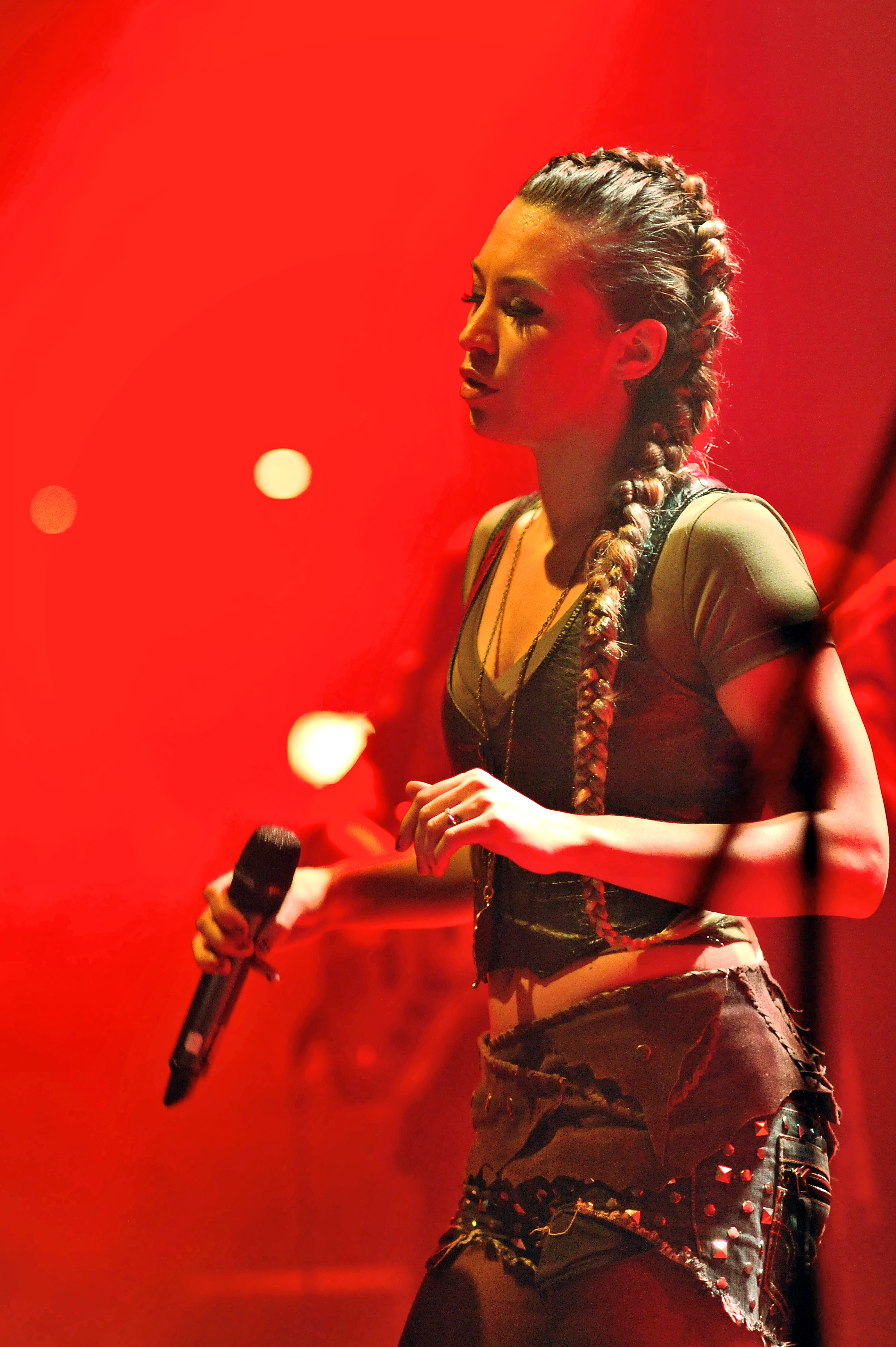 Anniversary festival: 30 Years Rieckhof Hamburg-Harburg. I was invited to take photographs by the managing director of the Rieckhof, Jörn Hansen